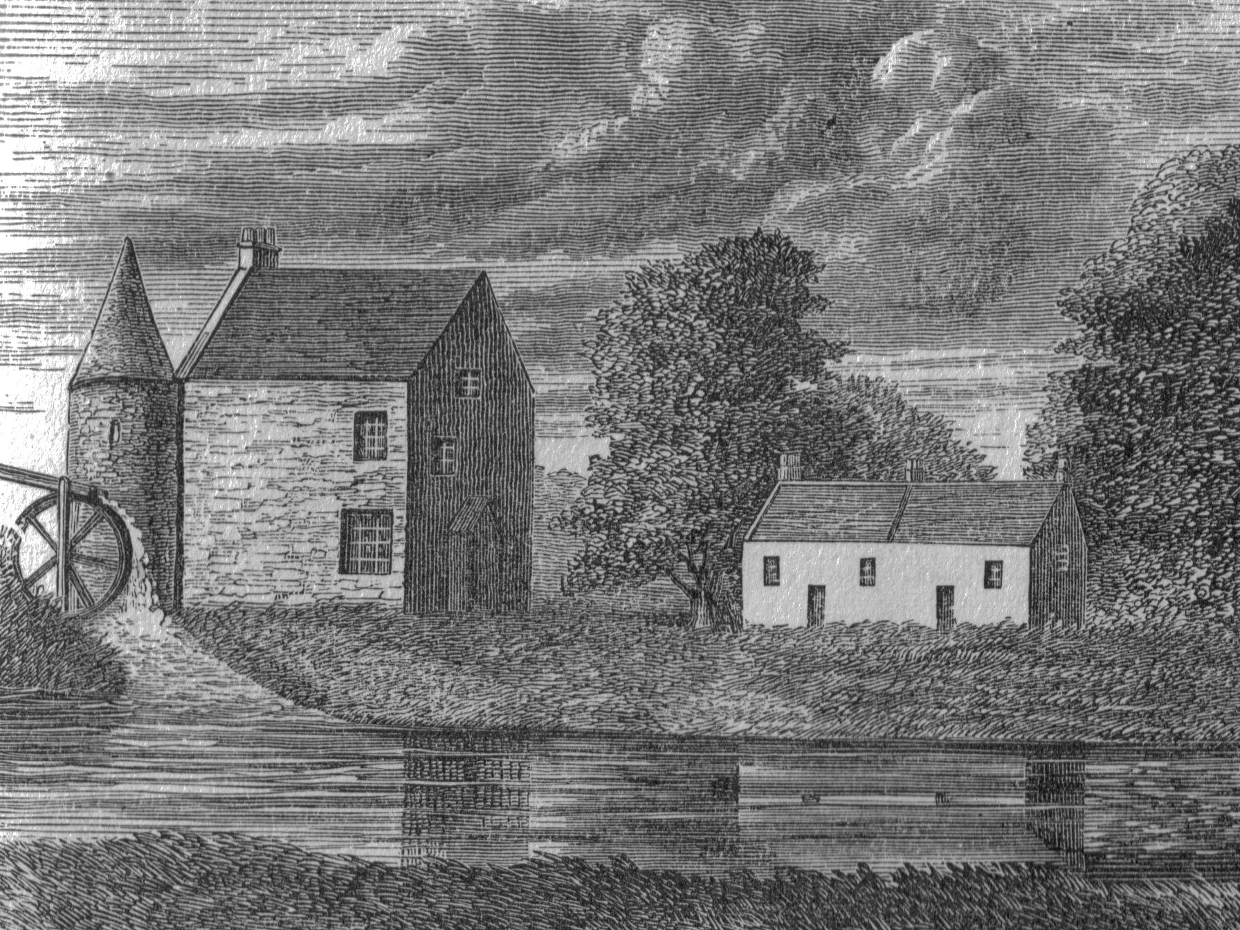 Riccarton Mill, Ayrshire, Scotland. River Irvine.